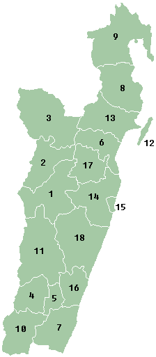 List of districts (fivondronana) in Toamasina province